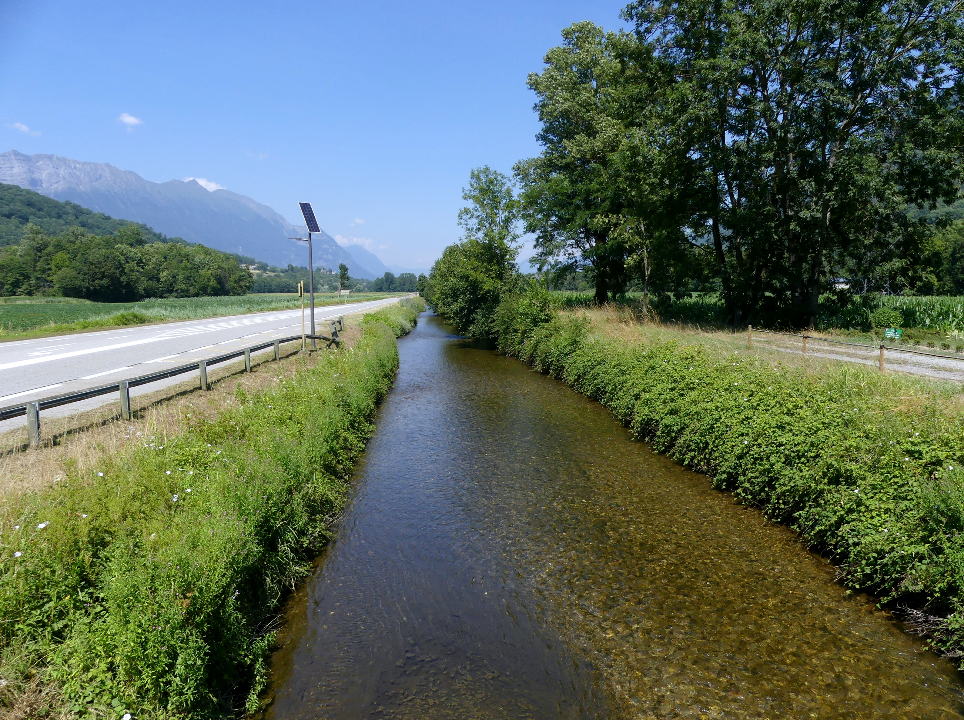 Sight of the Gelon river along the Route départementale 925 road in the direction of Chamoux-sur-Gelon and its mouth into Isère river, in Villard-Léger, Savoie, France.